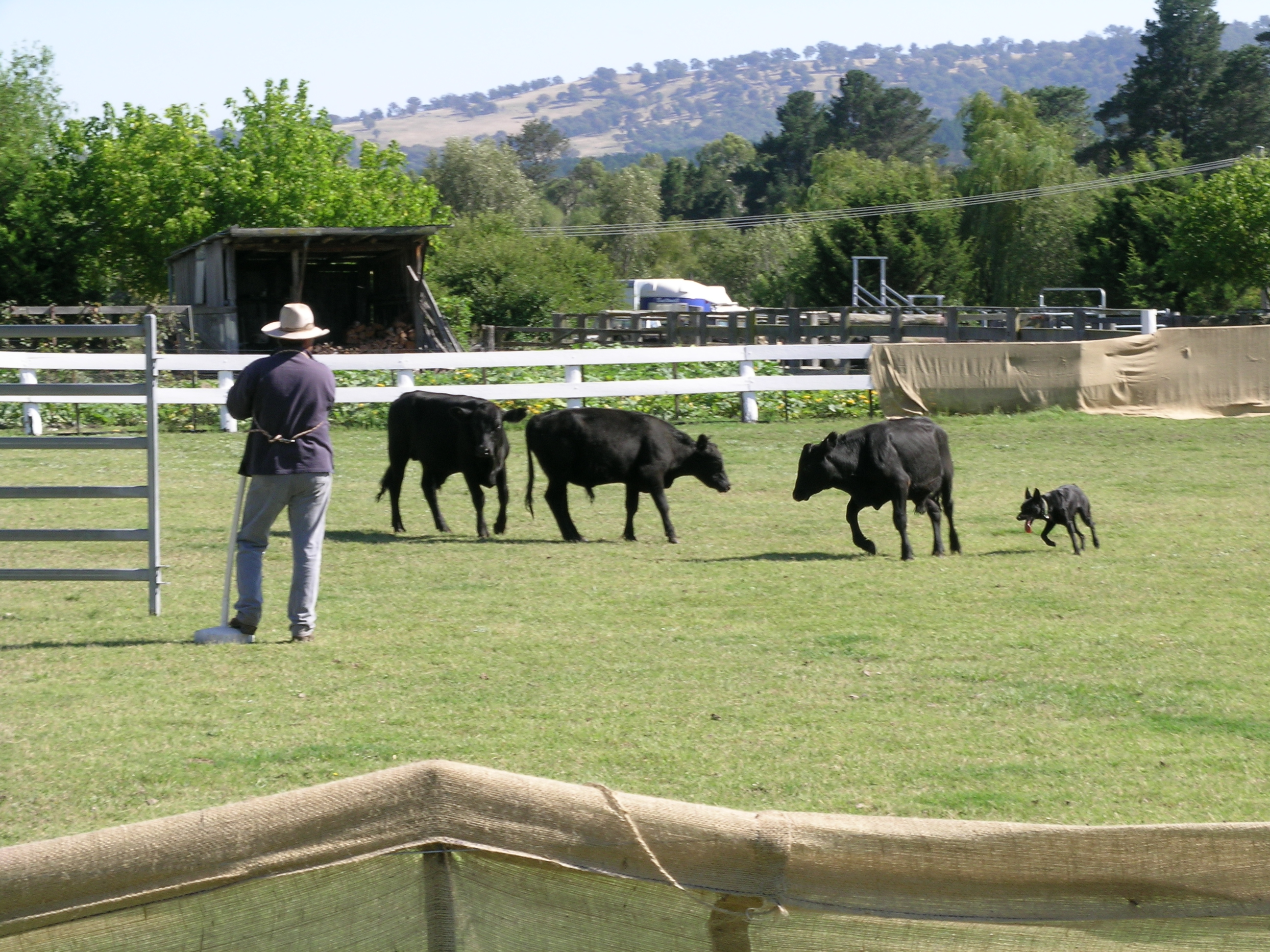 An Australian Kelpie competing in a cattle dog trial, Woolbrook, NSW.